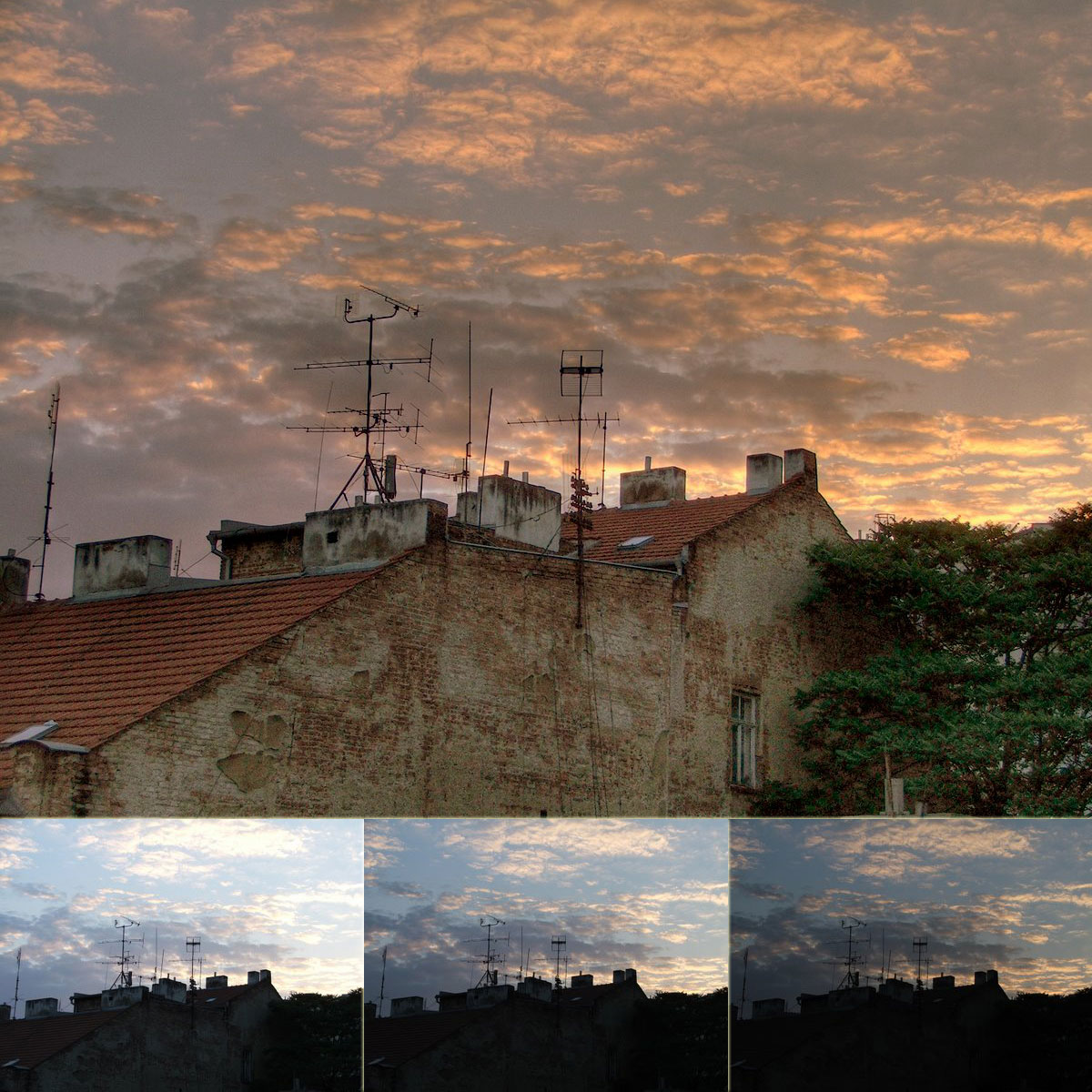 example of HDR image including images that were used for its creation